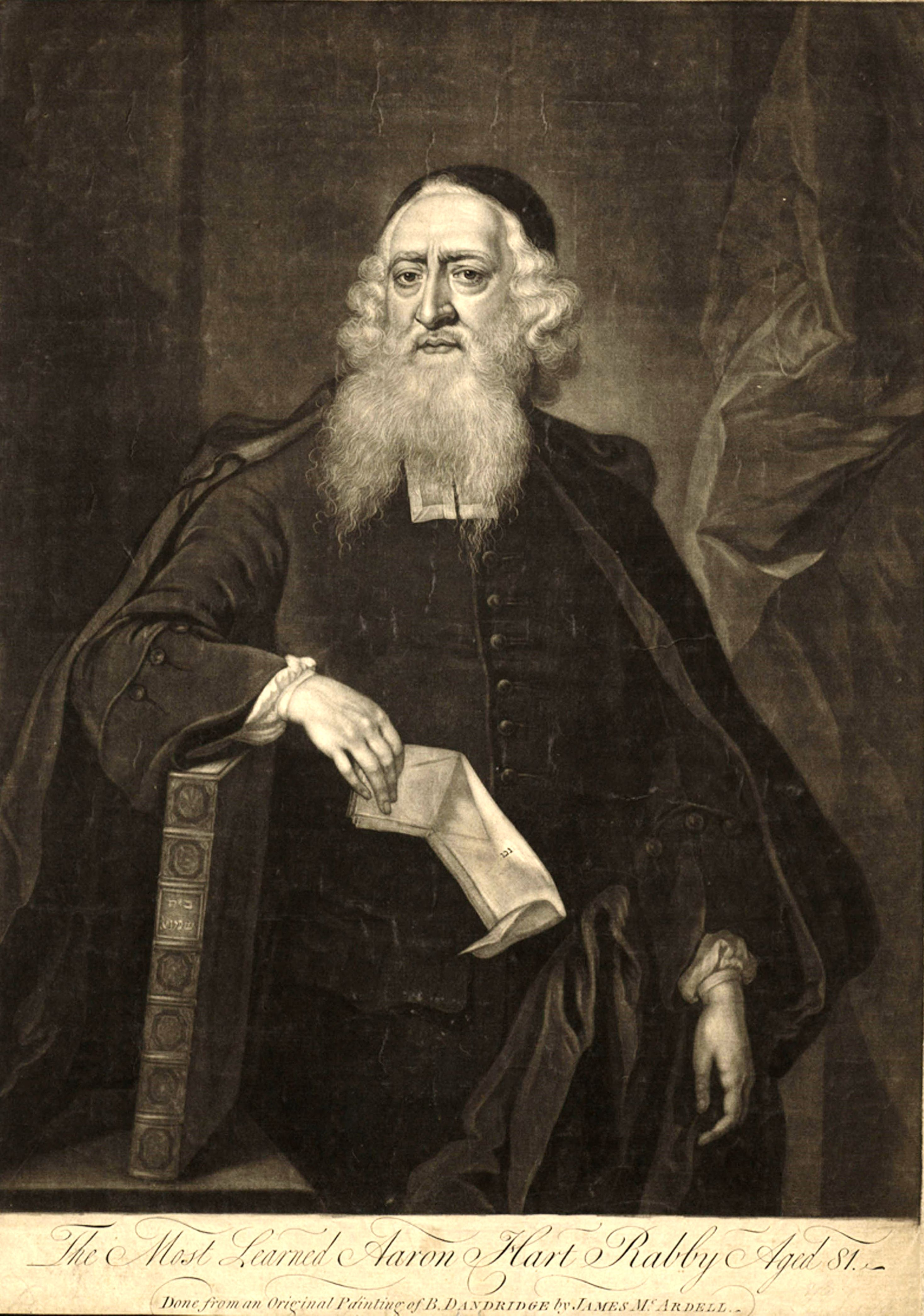 Aaron Hart. by James McArdell, after Bartholomew Dandridge mezzotint, 1751